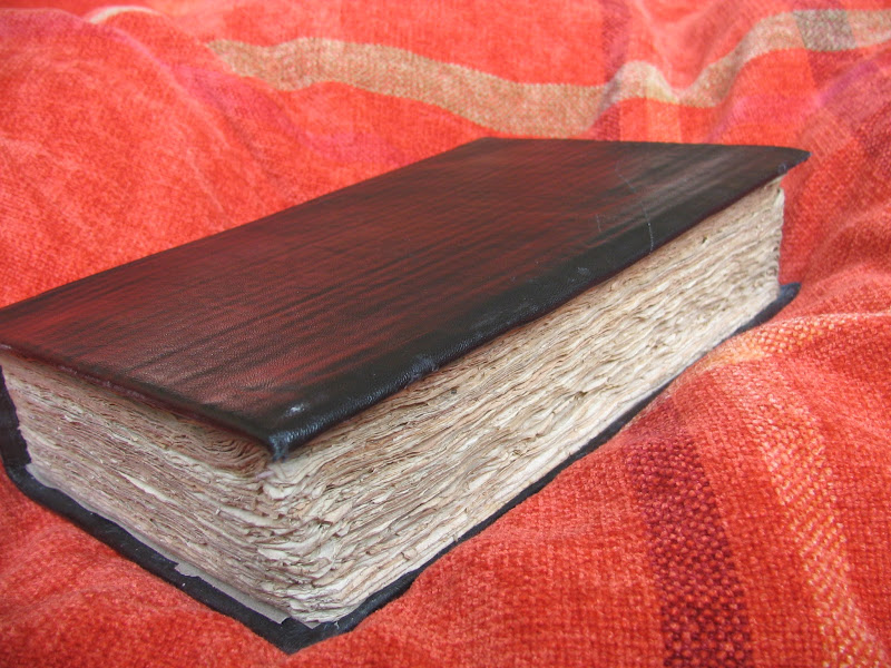 Detail of an untrimmed book